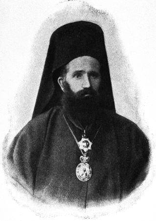 Vasileios, Metropolitan of Paramythia (1858-1936): Greek priest